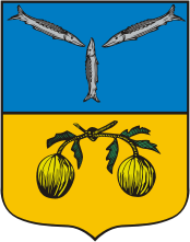 Serdobsk (Penza oblast), coat of arms (1781)